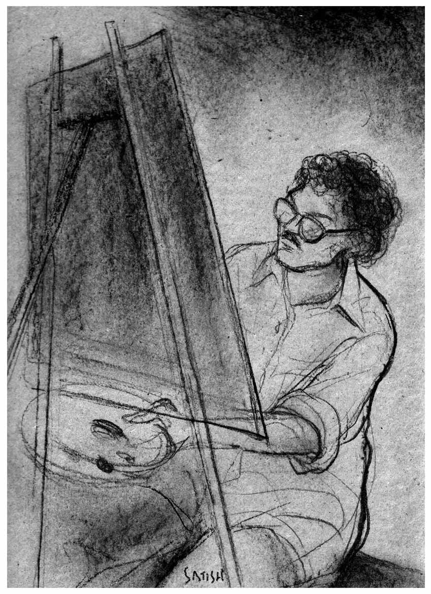 k.sathish, cartoonist, painter, writer. illustrator, malayalam,kerala,india